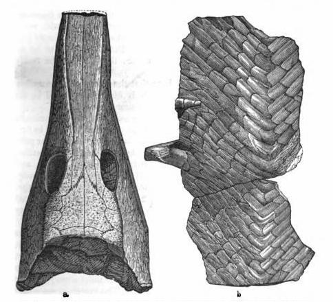 Illustration of Cricotus heteroclitus. Upper surface of the skull (a) and ventral scutes (b). Printed in A manual of palaeontology for the use of students, with a general introduction on the principles of palaeontology (Vol. II) by Henry Alleyne Nicholson and Richard Lydekker (1889). Originally from "The Batrachia of the Permian of North America America" by Edward Drinker Cope (The American Naturalist 18, 1884).